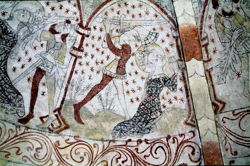 Bregninge Kirke (church) in Kalundborg Kommune